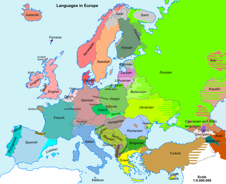 Languages of Europe (no sources)